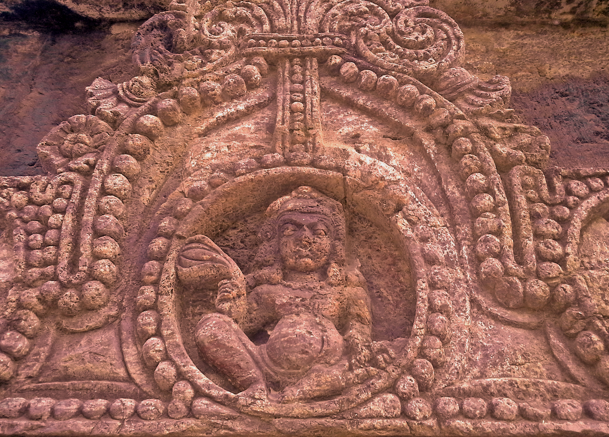 A relief of Yaaksha on a dome at Sri Mukhalingam temple complex in Srikakulam district